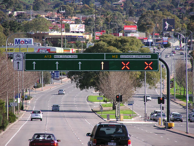 Intersection of the Southern Expressway and Main South Road, Adelaide. Photo by Adam Trevorrow, on 4th of September 2005. Low resolution (640x480) image rights released 19th February 2006.